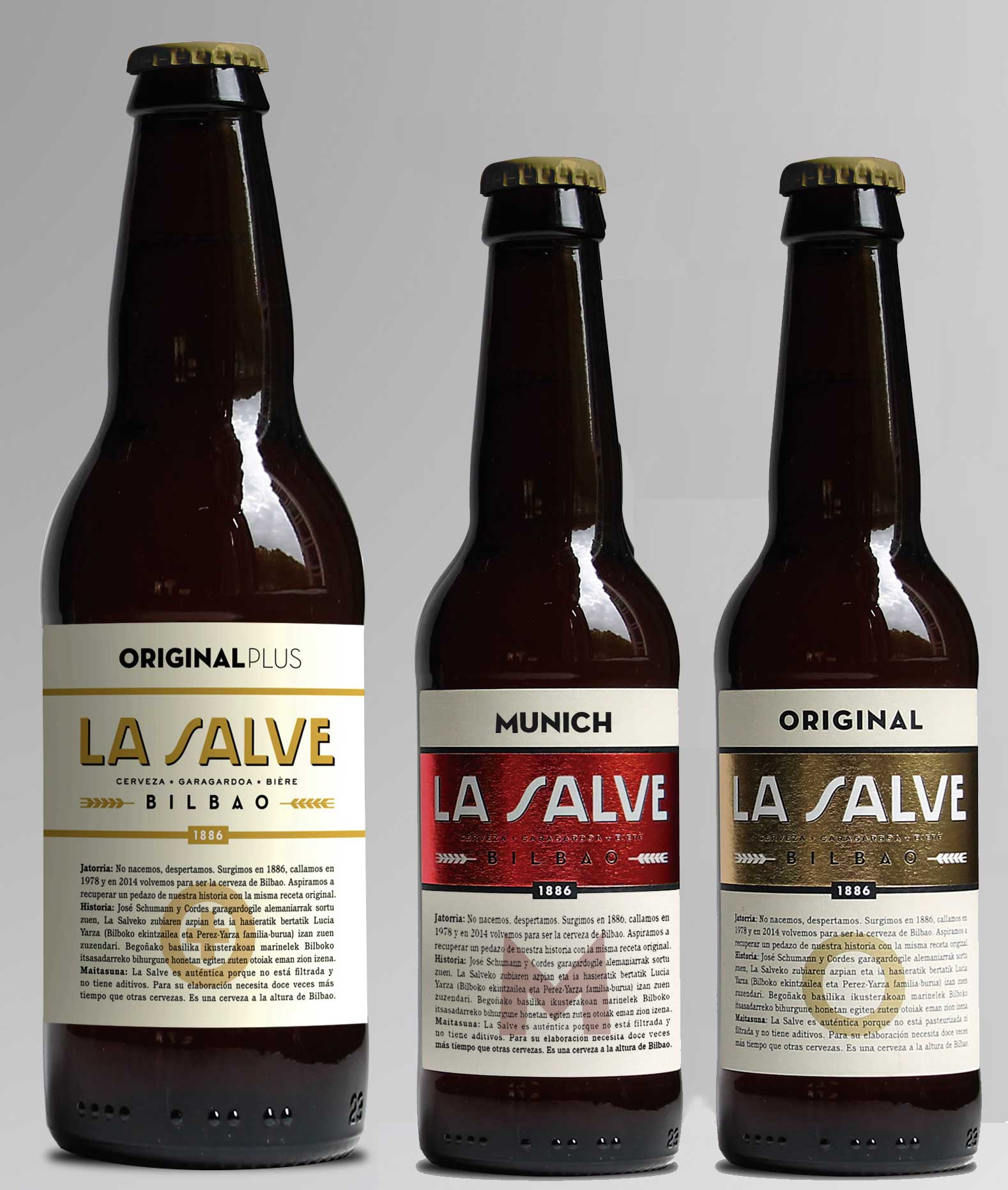 La Salve beers